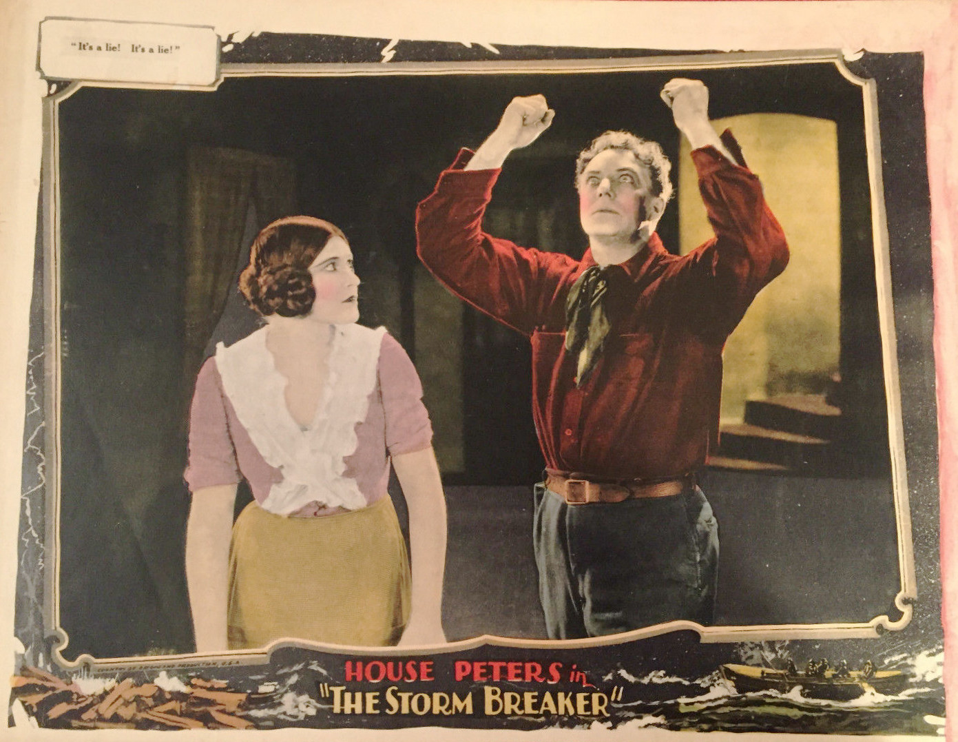 Lobby card for the American drama film The Storm Breaker (1925) with Nina Romano (1901 – 1966) and House Peters.